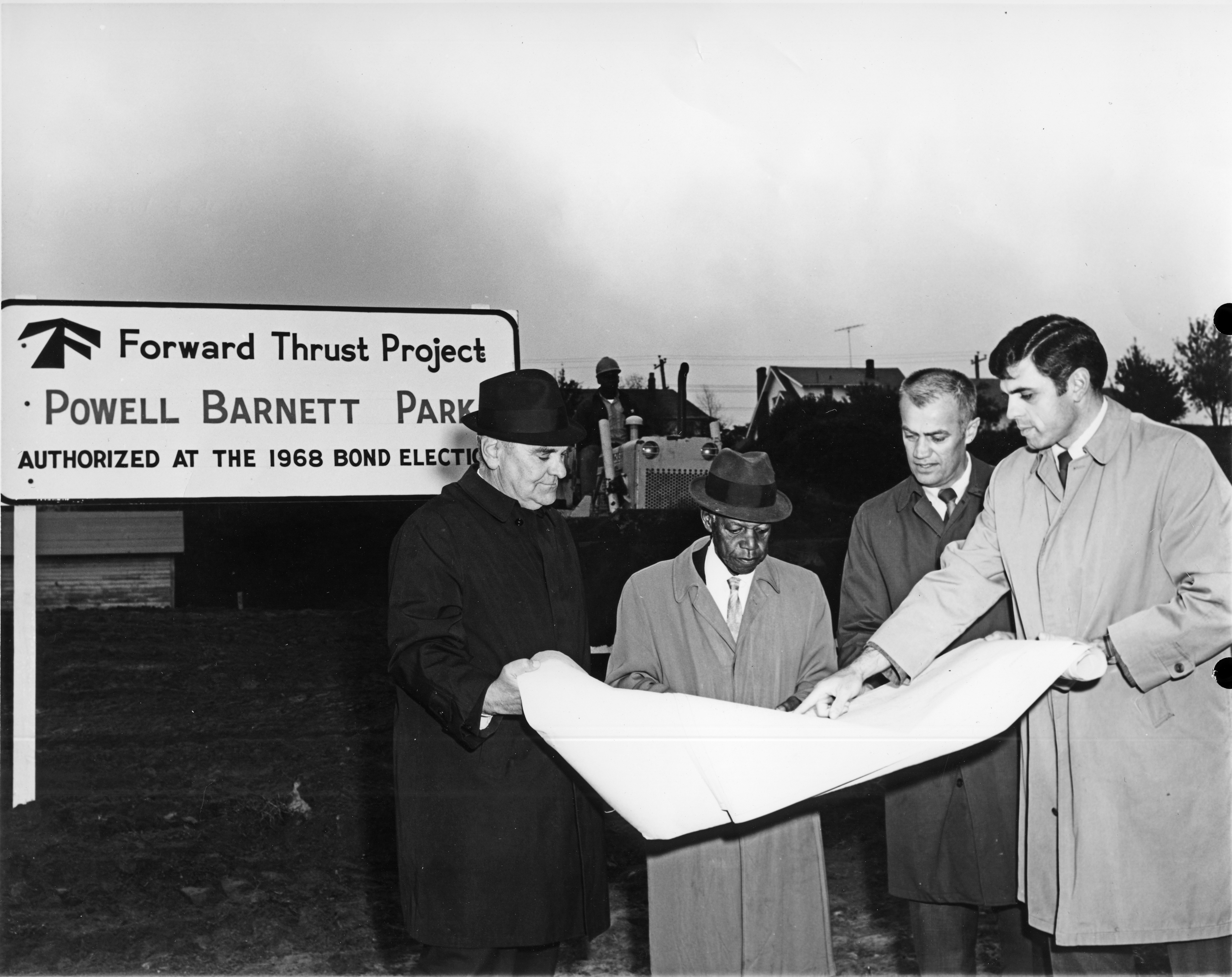 Left-to-right, John O. Andrew, chairman of Seattle's Board of Parks Commissioners; Powell Barnett, athlete, musician, and community activist; Hans A. Thompson, Superintendent of the Seattle Department of Parks and Recreation; and Roy Lehner, designer from David Jensen Associates. Item 28843, Don Sherwood Parks History Collection (Record Series 5801-01), Seattle Municipal Archives.